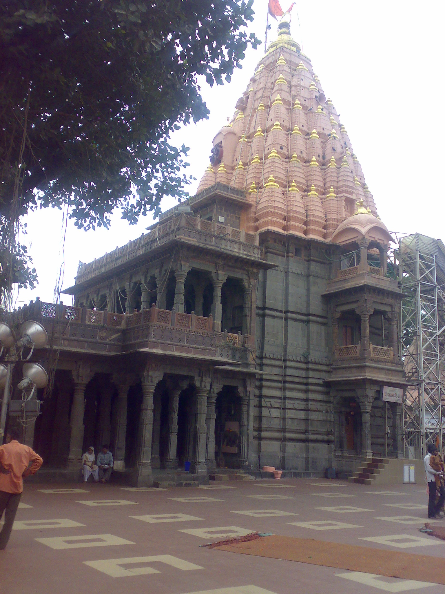 Mahakaleshwar Mandir after completion of Renovation. Notice there was only one top made of Gold. Now, there are many.